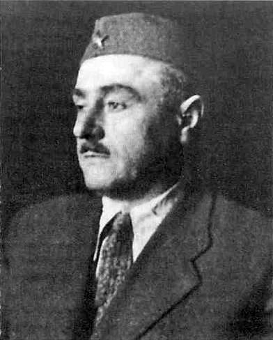 Croatian politician Andrija Hebrang